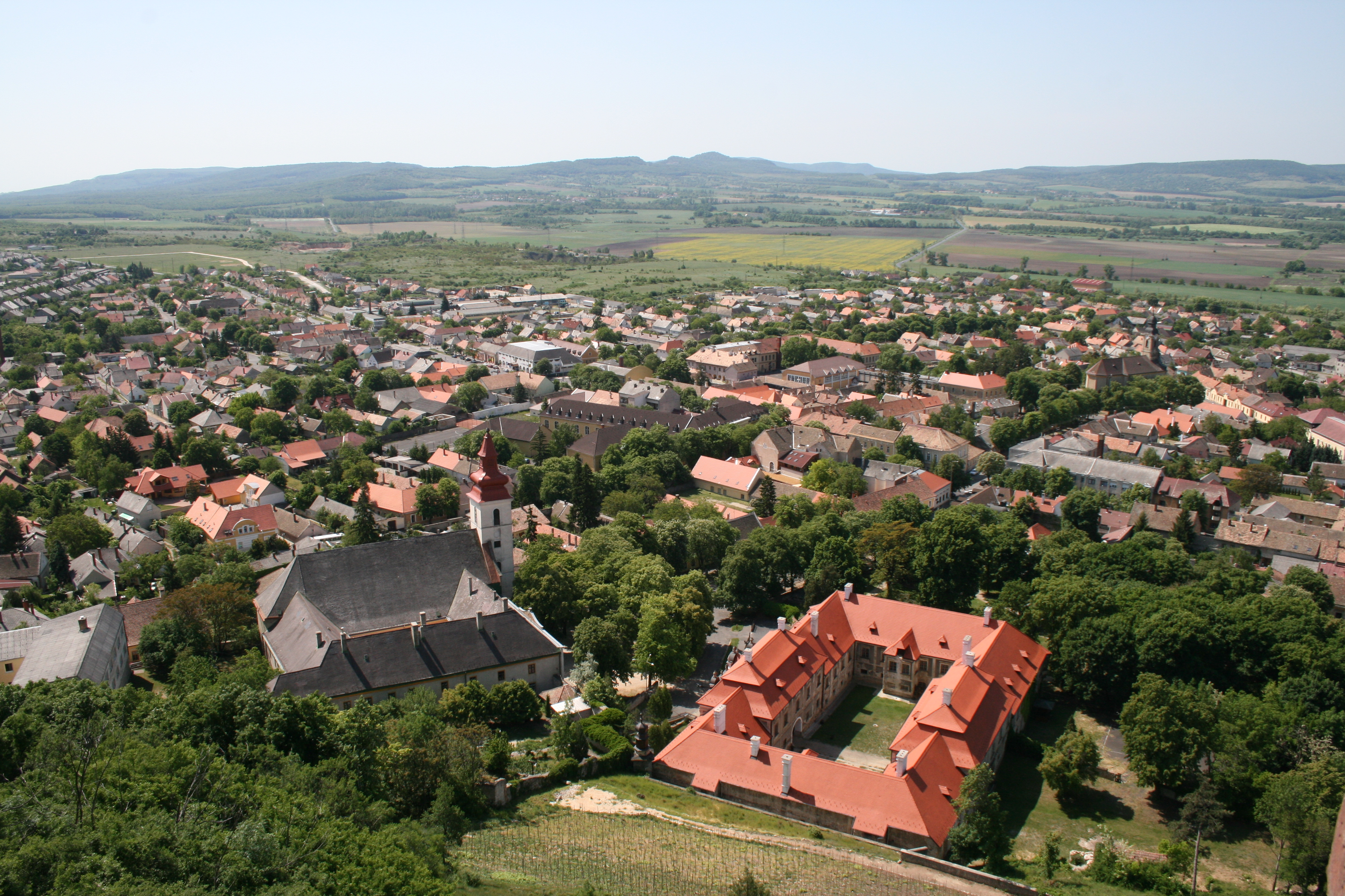 Sümeg